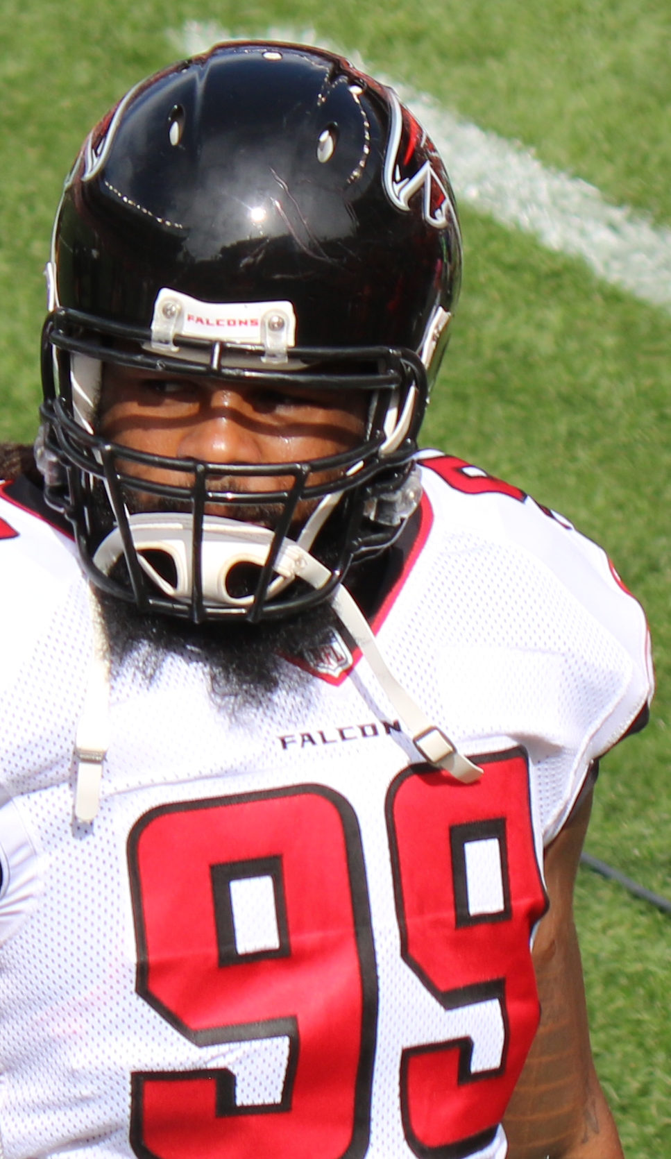 Adrian Clayborn, a player on the National Football League.